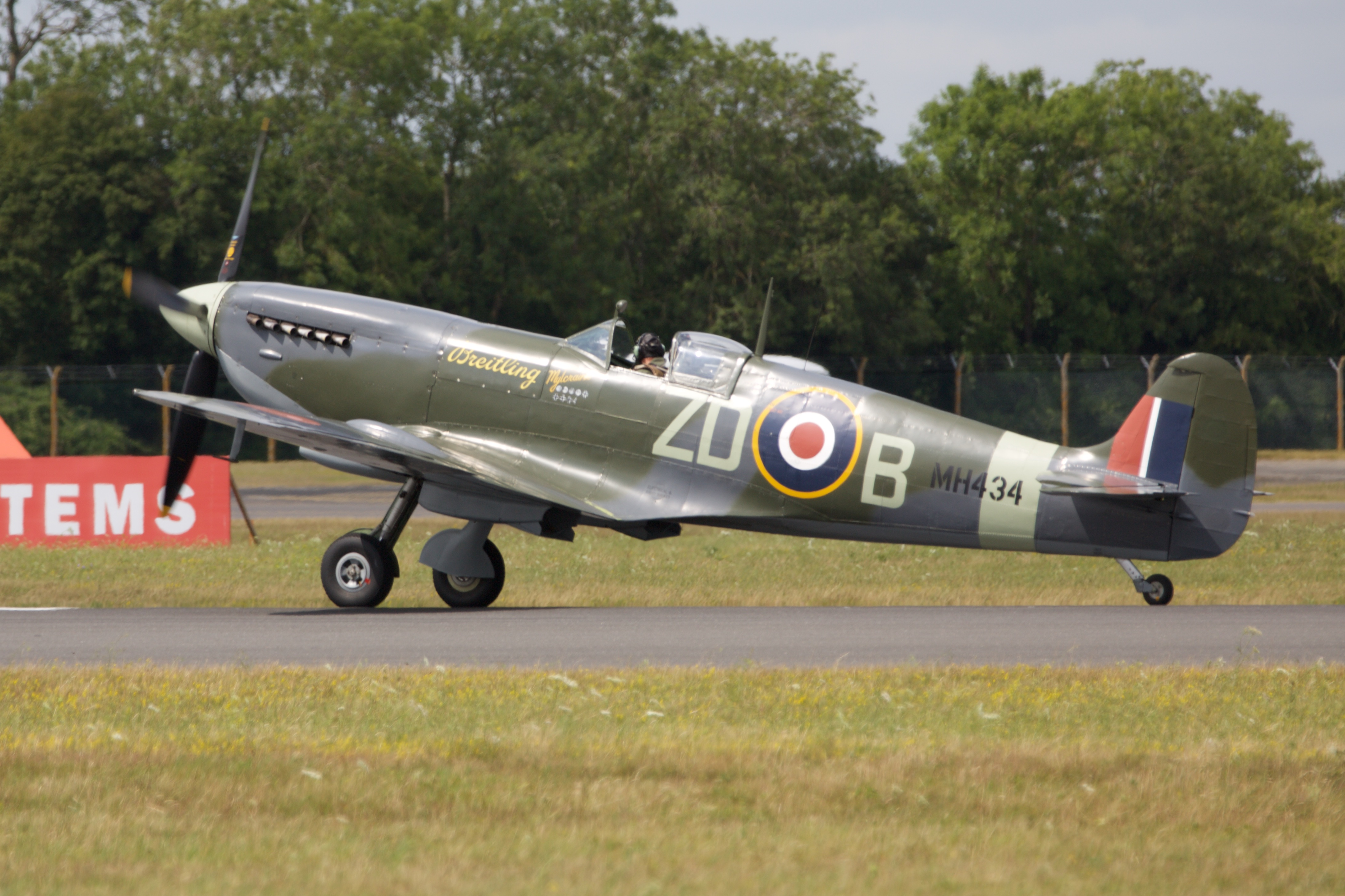 Spitfire MK IX